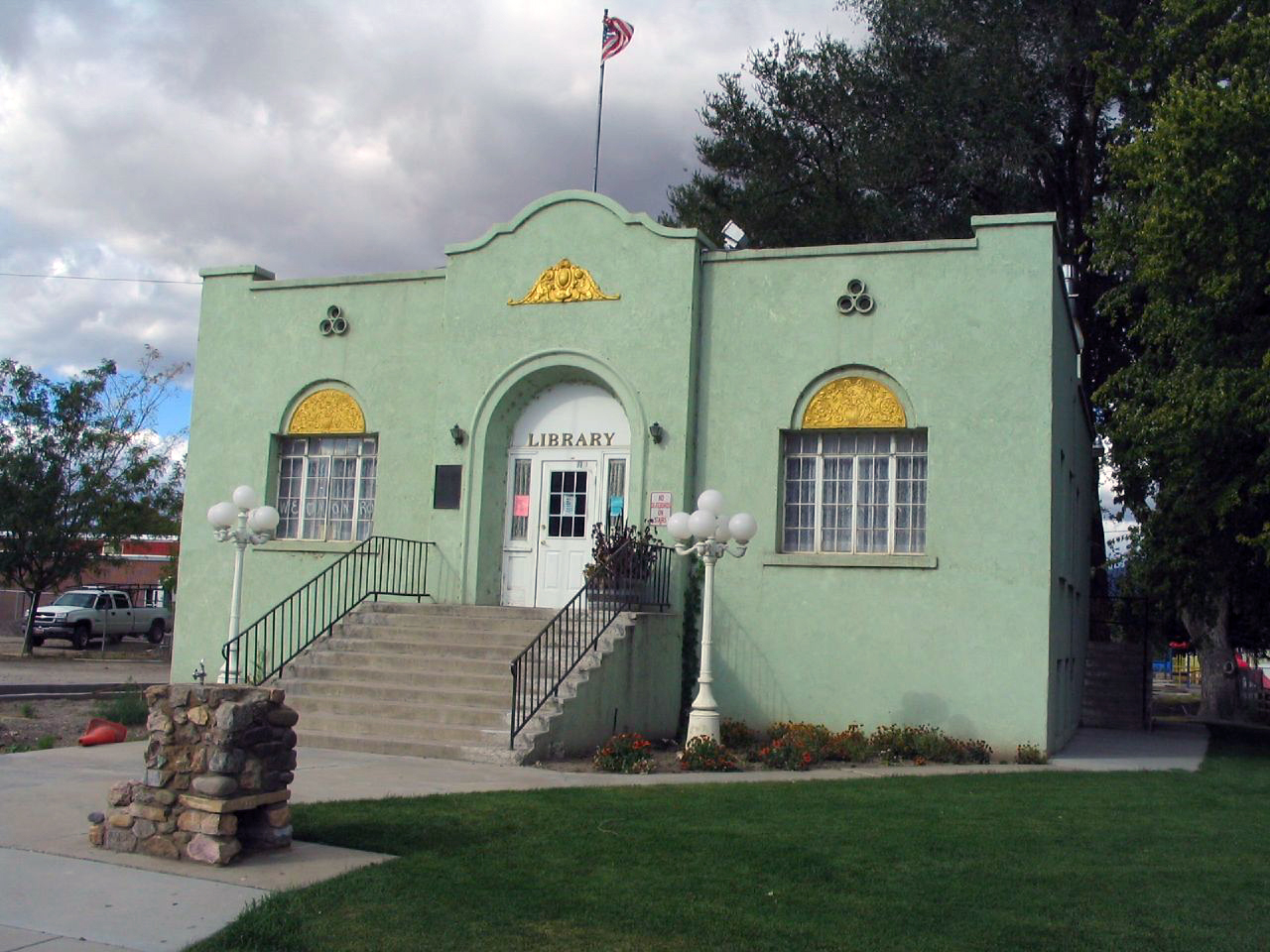 The Monroe City Library, located in Monroe, Utah. Built 1934 by the New Deal Programs.